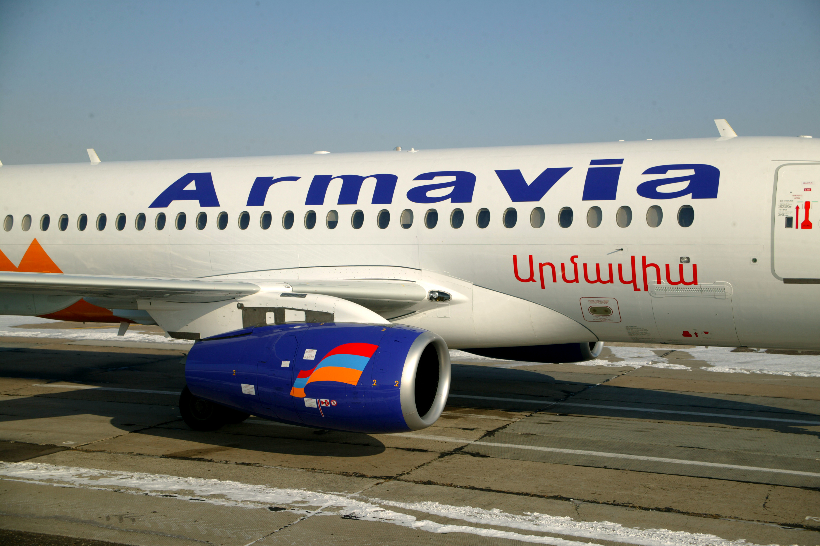 More pictures of SSJ100 in Armavia Livery on the Runway in Komsomolsk-on-Amur